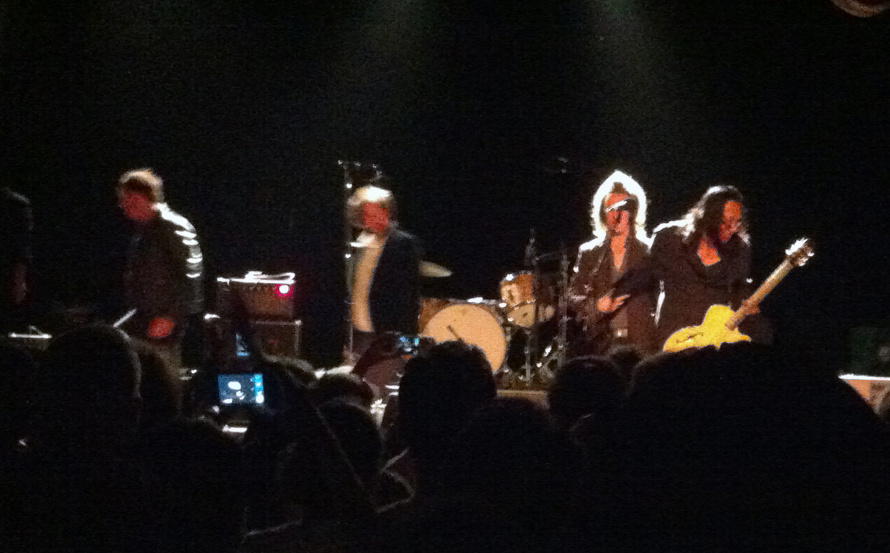 Sixto Rodriguez at San Francisco's 365 club September 29 2012 on stage